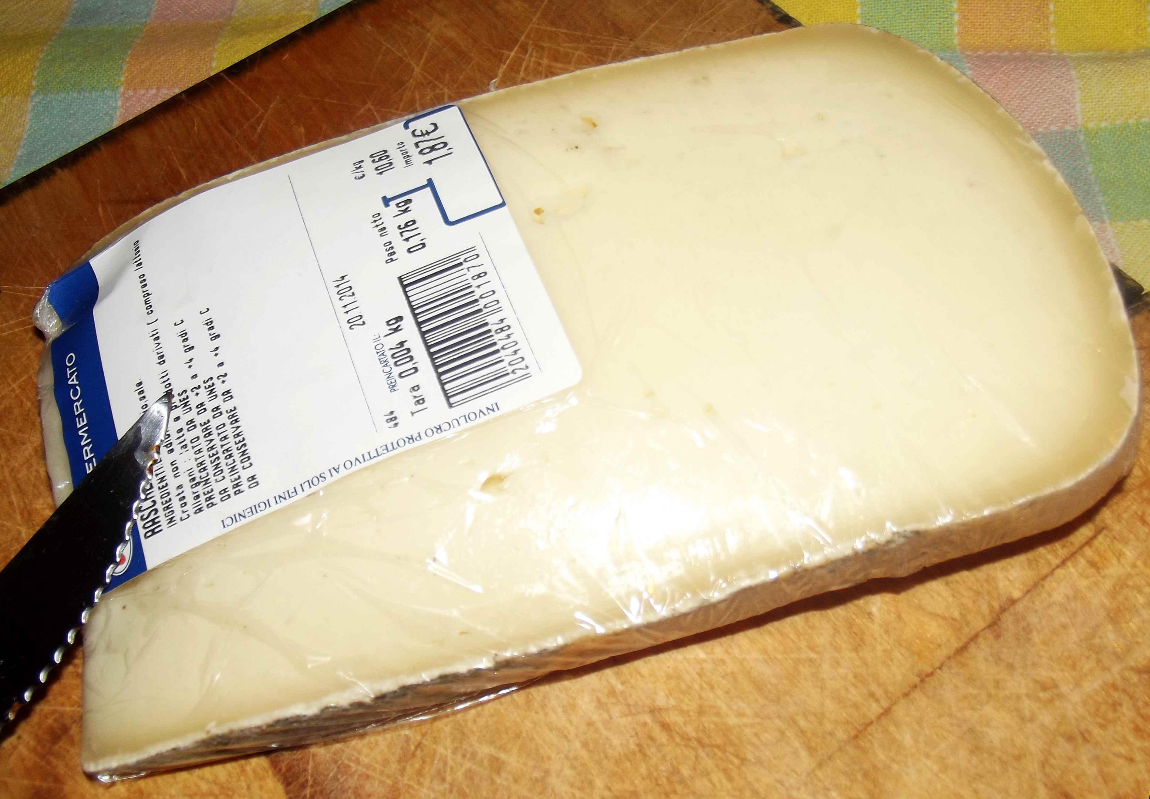 Raschera cheese slice (Italian cheese fron Cuneo province) bought in a supermarket